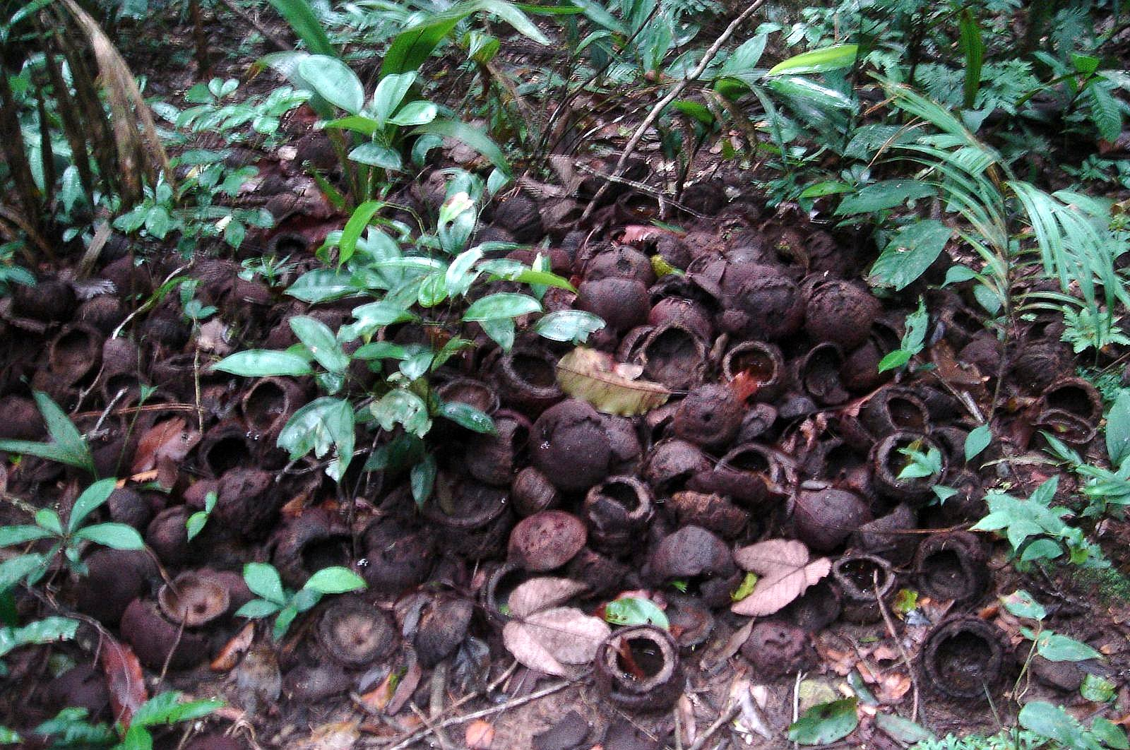 A pile of empty shells of the brazil nut fruit near Xixuaú village, Lower Rio Branco-Rio Jauaperi Extractive Reserve, Brazil